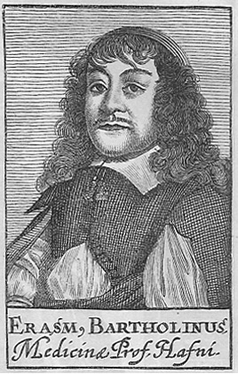 Rasmus Bartholin